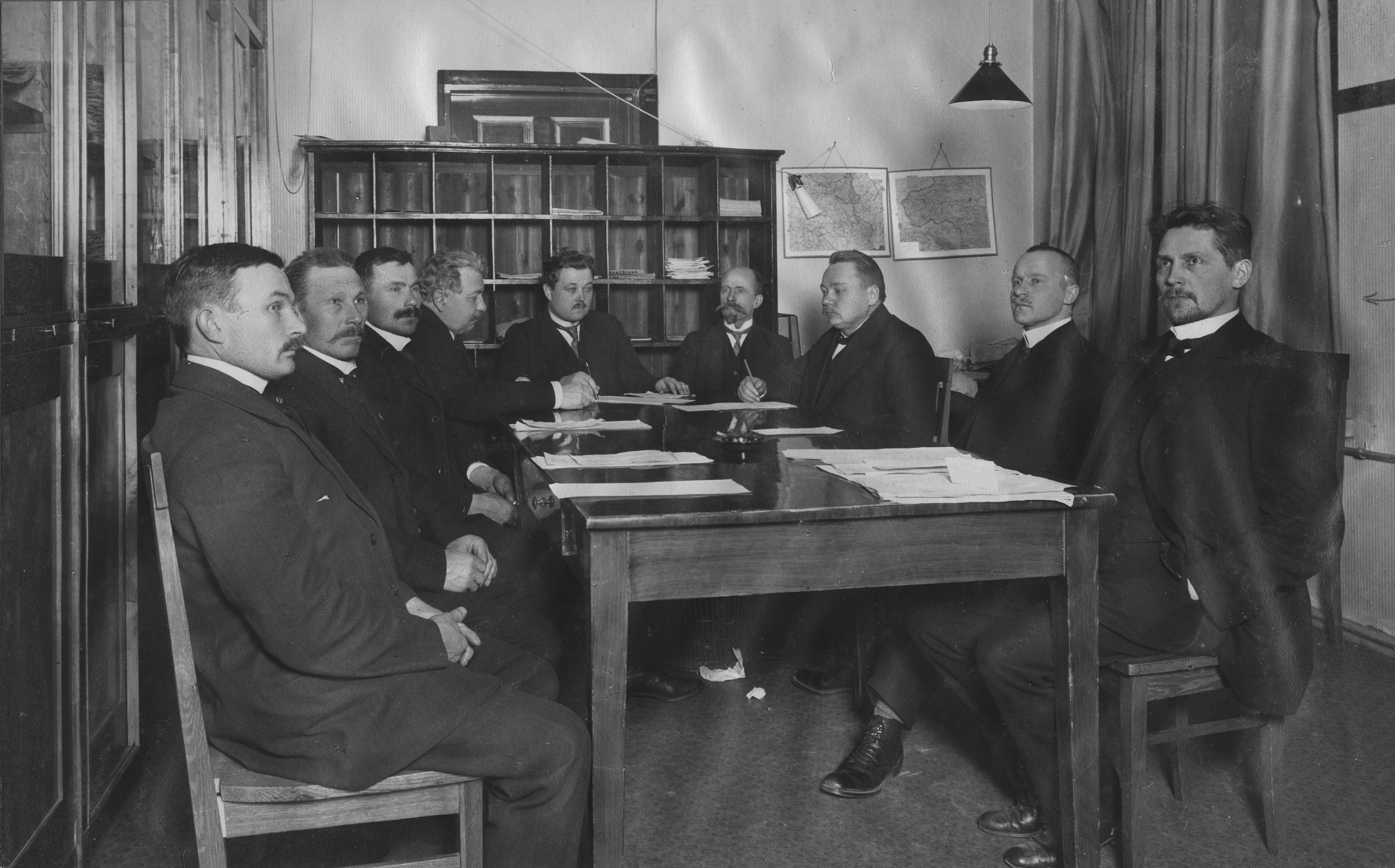 Board of the newspaper "Työmies" in Helsinki, Finland in 1915.